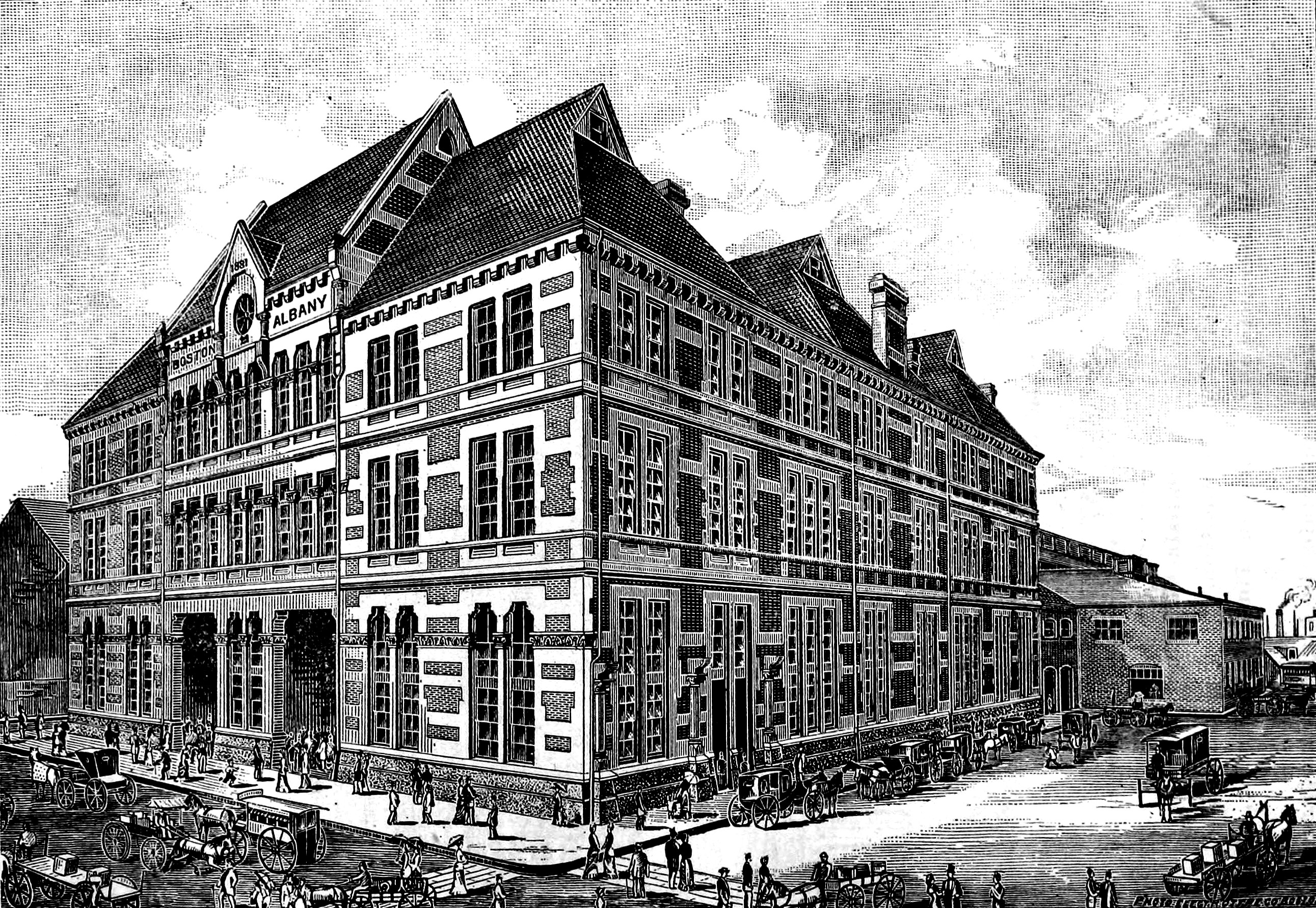 A woodcutting of the Boston and Albany Railroad depot in Boston, published the year of the station's completion